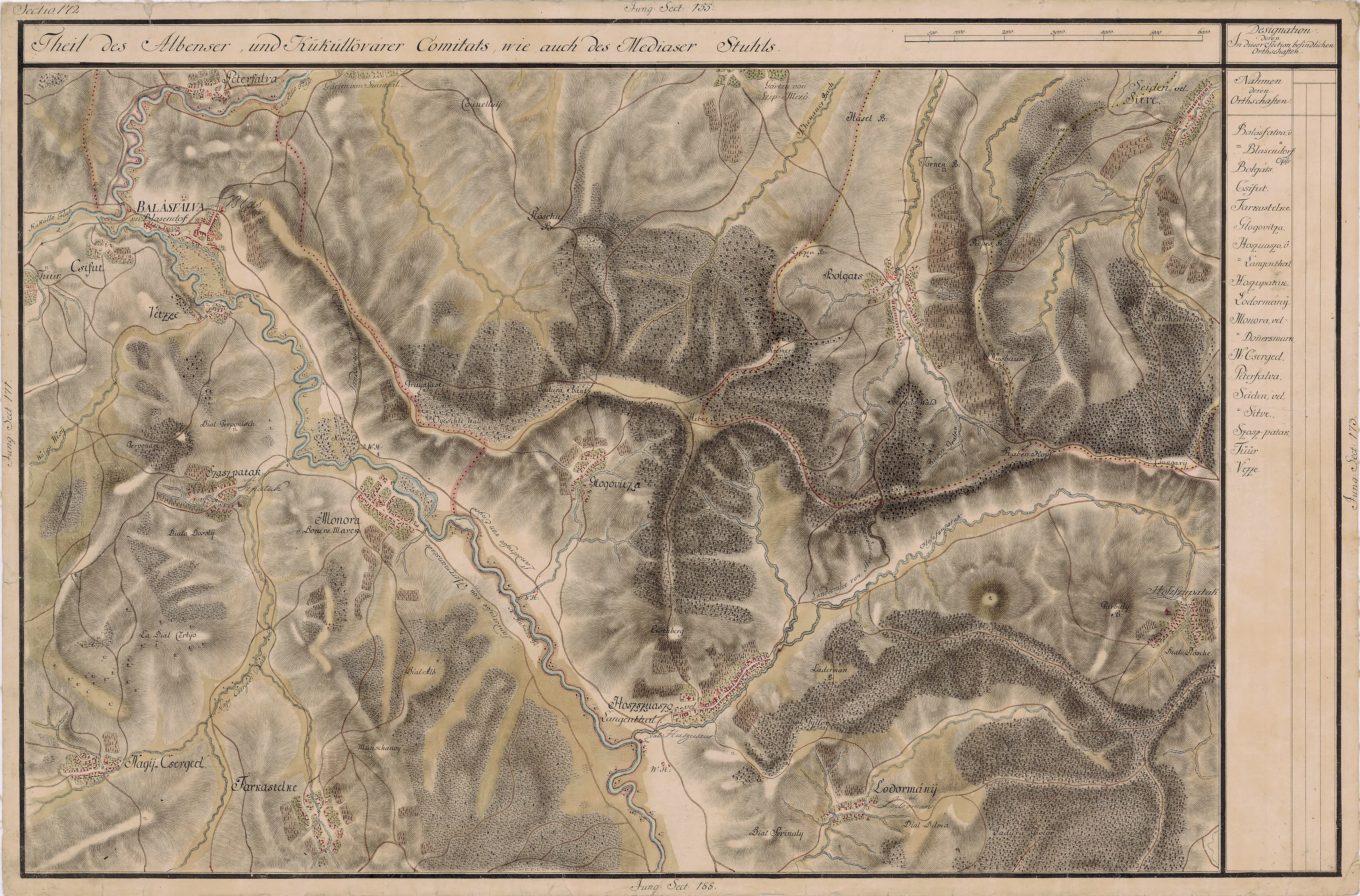 Grand Duchy of Transylvania, 1769-1773. Josephinische Landaufnahme pg.172